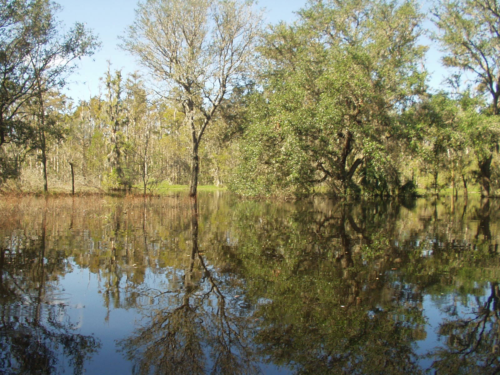 Kissengen Spring flooded from Peace River backflow after 3 hurricanes passed through the area, October, 2005